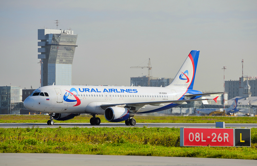 An image of the Ural Airlines docking at Koltsovo International Airport.